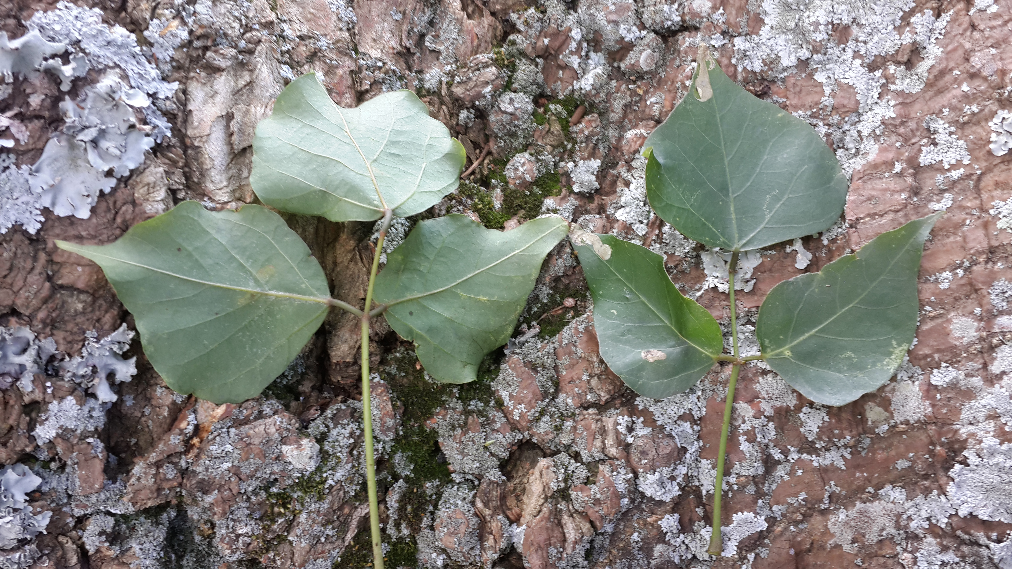 Front and back image of the three leaflets which make up a Coastal Coral tree leaf.